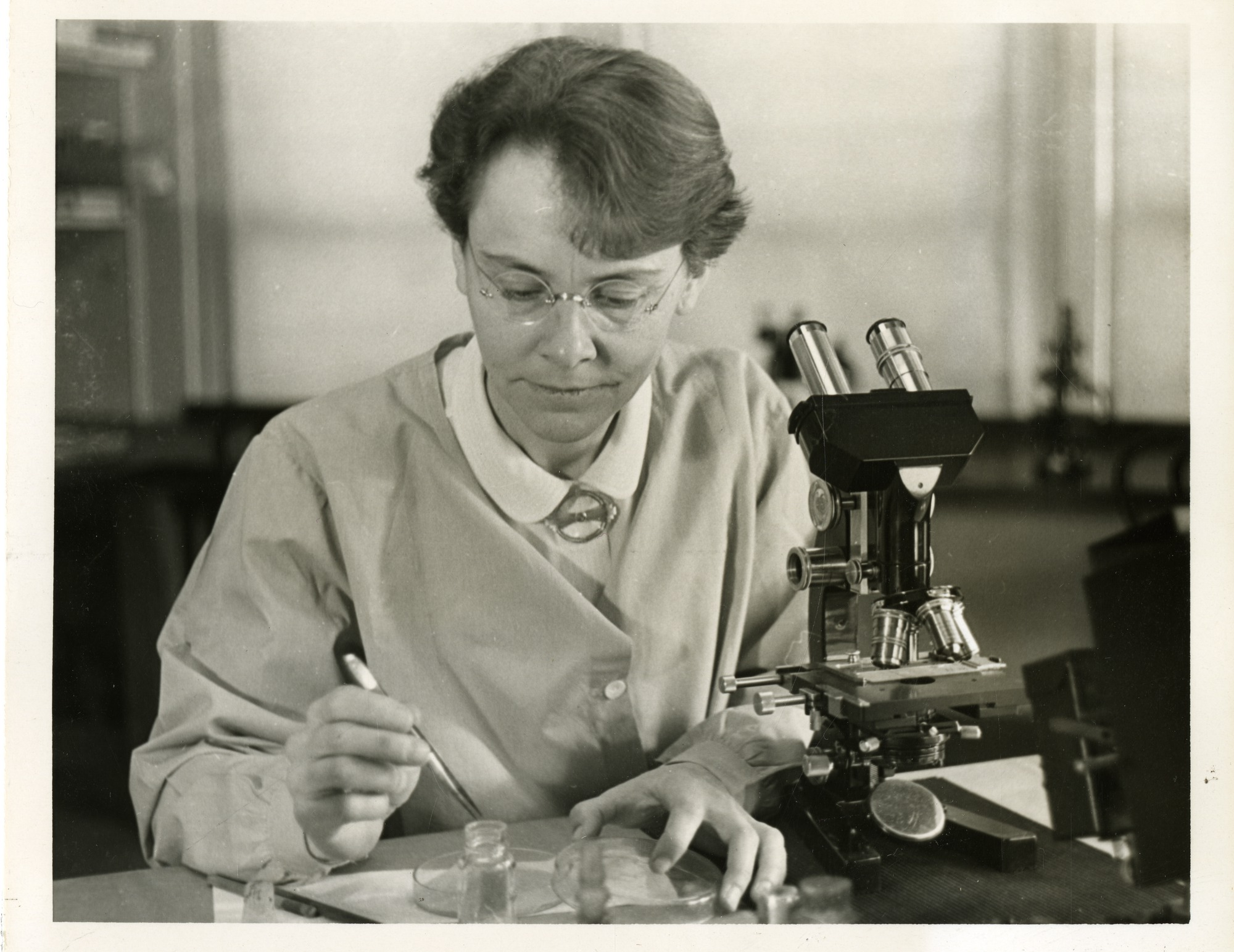 Barbara McClintock (1902-1992), Department of Genetics, Carnegie Institution at Cold Spring Harbor, New York, shown in her laboratory. This photograph was distributed when McClintock received the American Association of University Women Achievement Award in 1947 for her work on cytogenetics. (From SIA website)